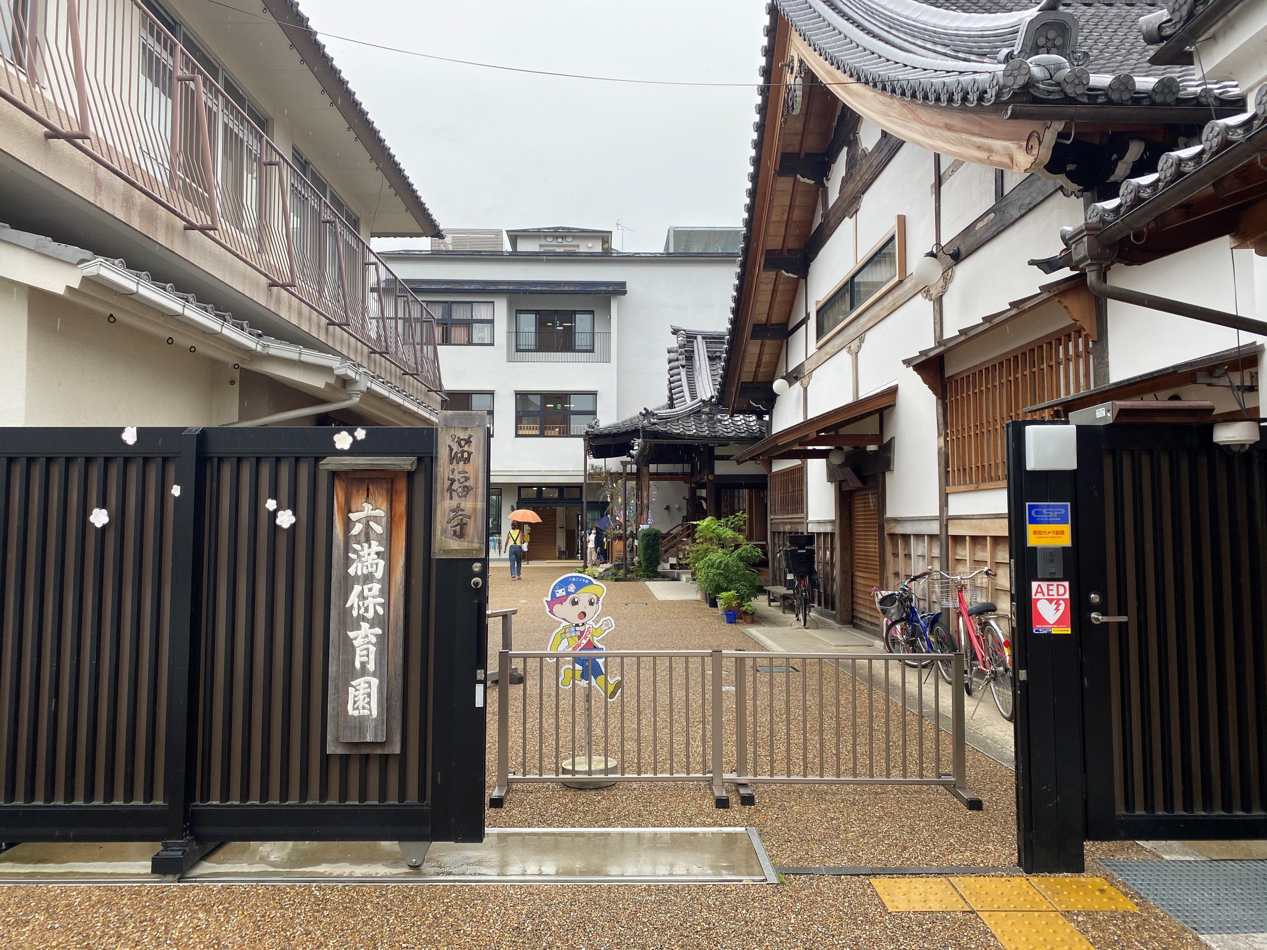 六満こども園